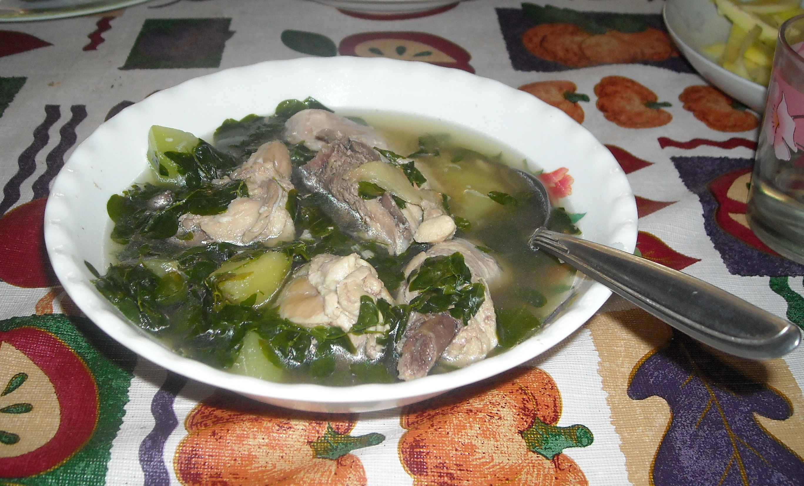 This is a bowl of tinola served during my lunch.